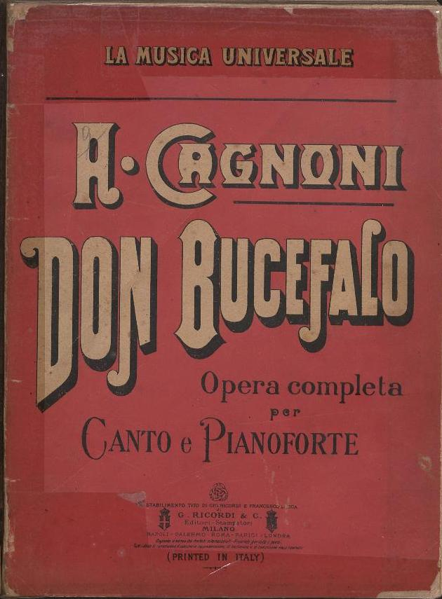 Cover of the piano-vocal score of Cagnoni's 1847 opera, Don Bucefalo, published by Ricordi in Milan, 1898